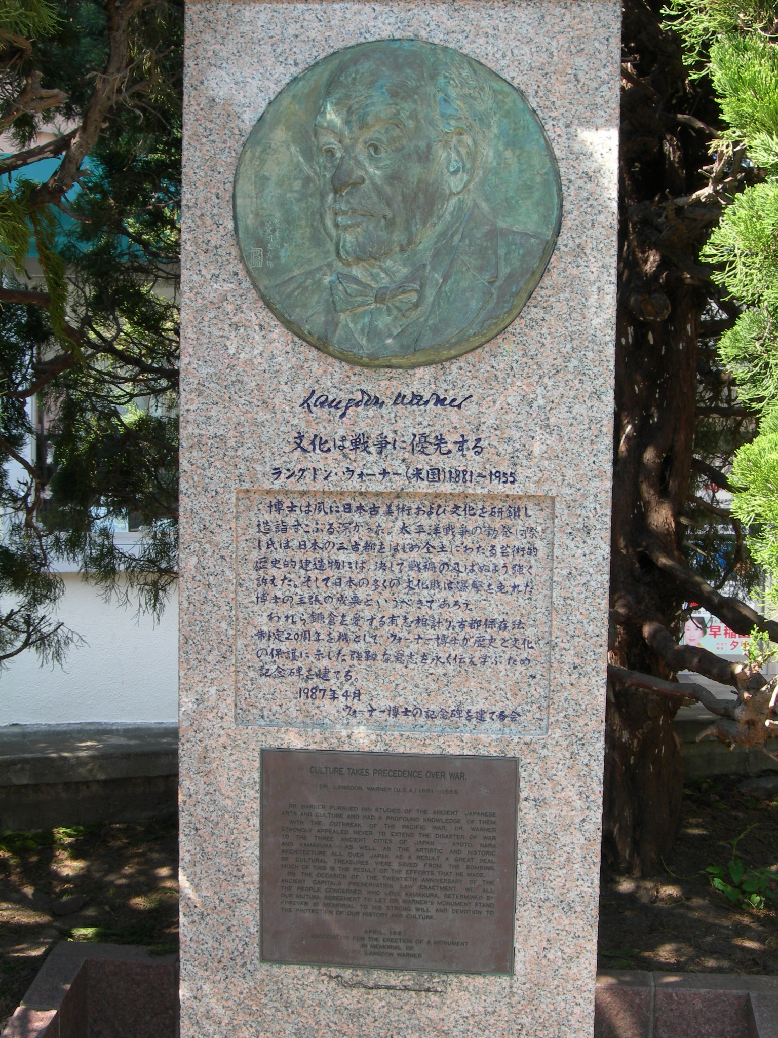 Stele of Langdon Warner, in Kamakura Station. Taken in 2009.